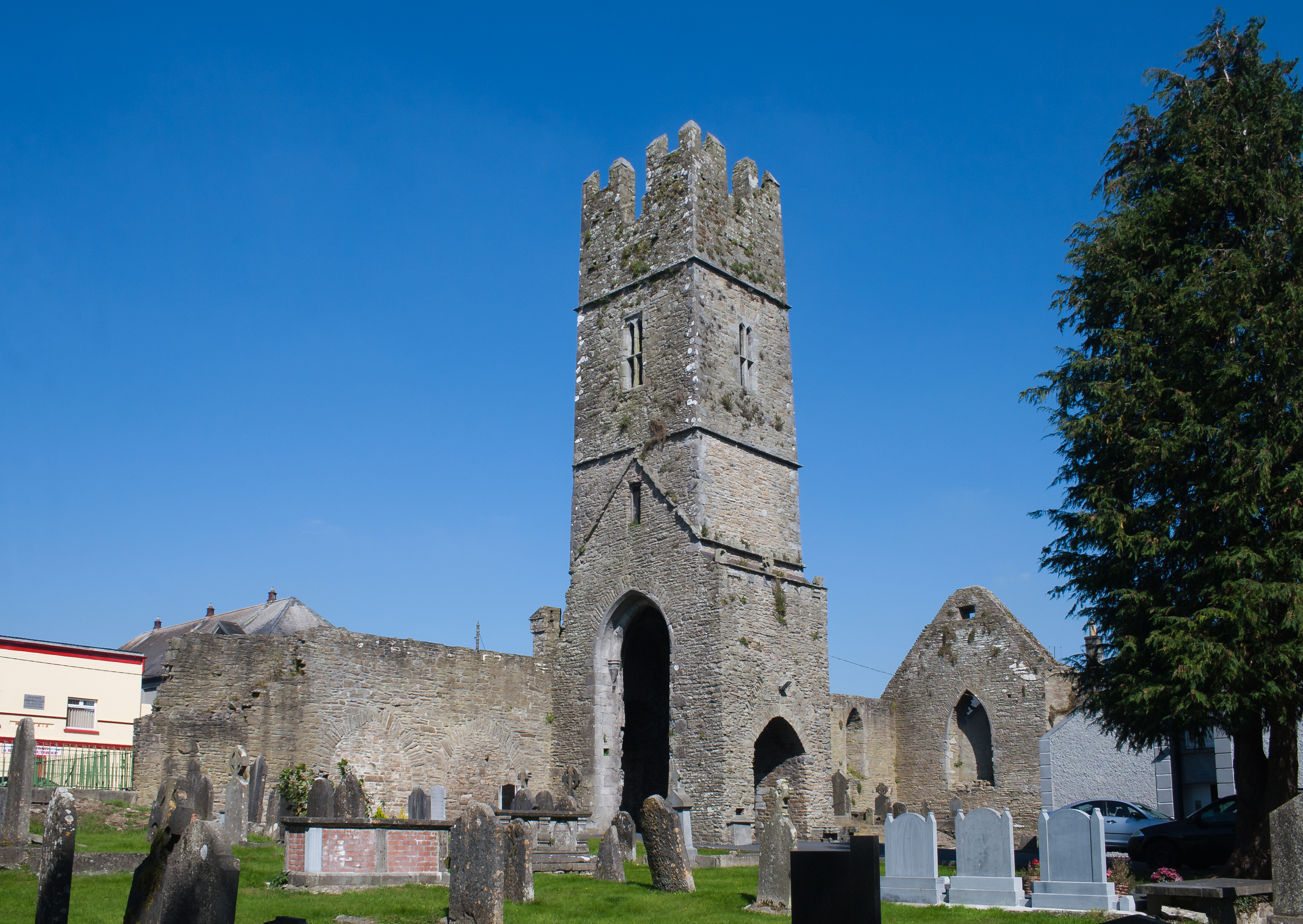 South-west view of Roscrea Friary.